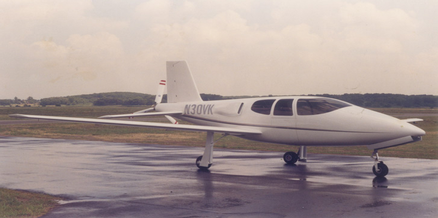 Cirrus VK-30 on the ramp before its first flight in 1988.